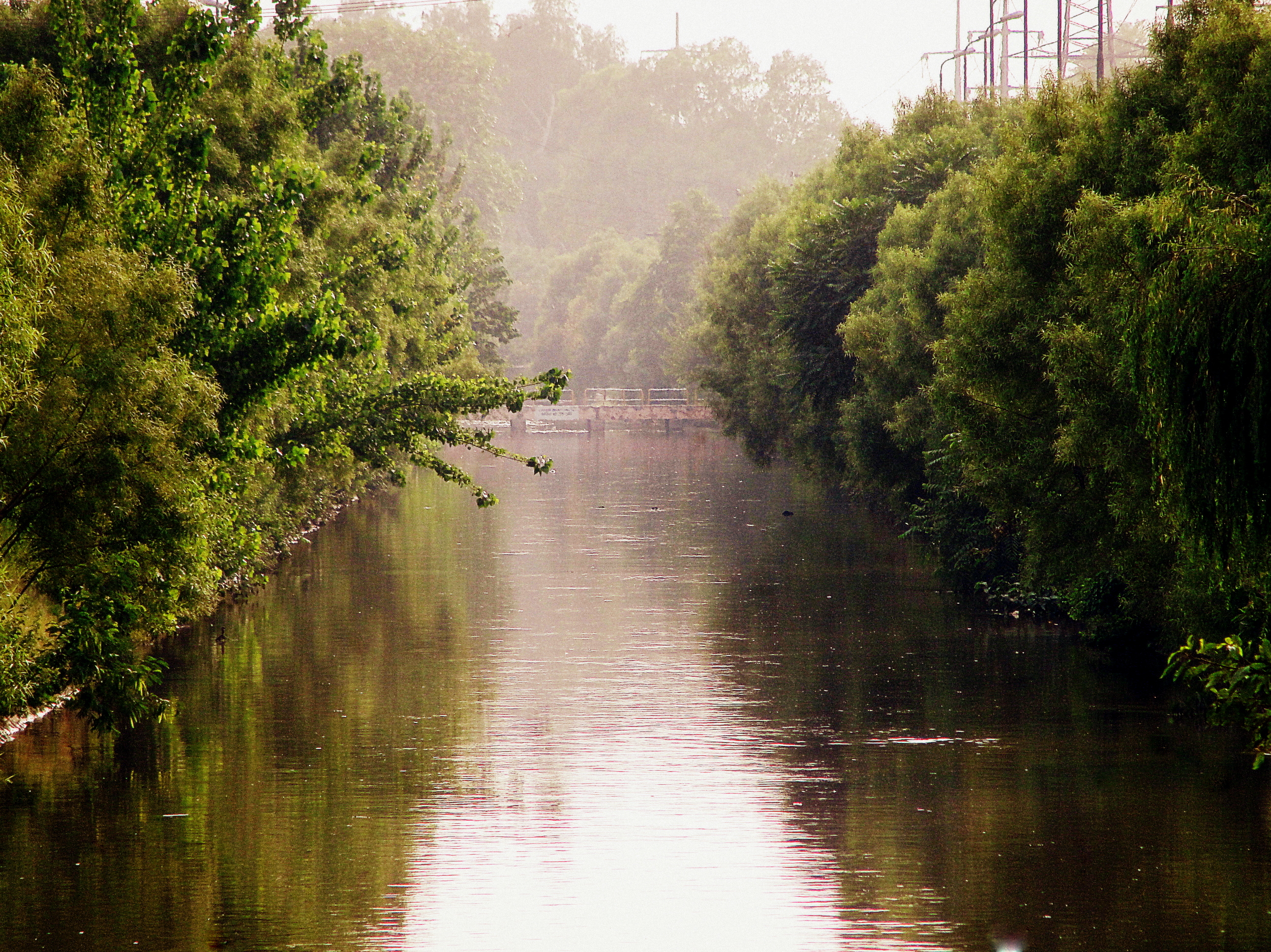 Downstream view of the Lahore Canal (لاﻫﻮر ﻧﻬﺮ) from Mughalpurah Junction